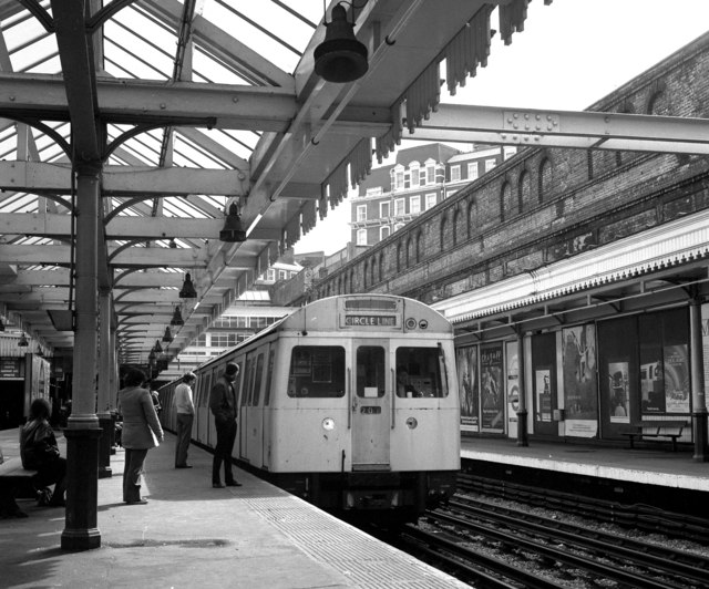 Gloucester Road station A westbound Circle Line train, formed of 'C 69' stock, is about to depart from this sub-surface station.